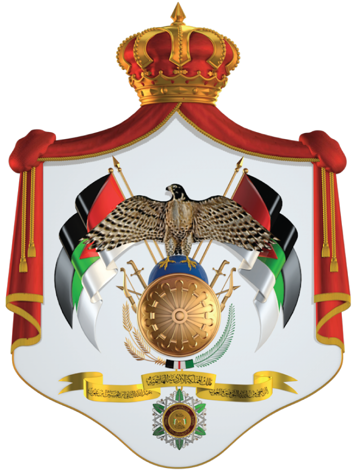 Coat of Arms of the Hashemite Kingdom of Jordan during the reign of King Hussein. Inscription on the scroll comprises three phrases. On the right side: “Al Hussein bin Talal bin Aoun” (Aoun is the great grandfather of Al Sharif Al Hussein bin Ali.)In the middle: “King of the Hashemite Kingdom of Jordan.” On the left side: “Who seeks support and guidance from God.”